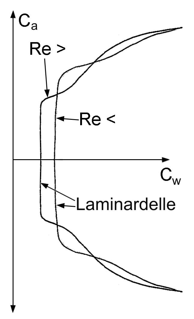 laminar dent